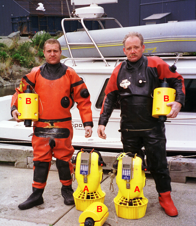 Dive team (Envirotech Divers) with an AquaMap long-baseline (LBL) acoustic positioning system. The three baseline transponders (B) are deployed prior to a dive and serve as the reference points for navigation. Using a short (2m) anchor line and a weight, they are secured to the seafloor. If repeat surveys need to be done over a period of time to monitor changes, the preferred technique is to establish a 'monument' at each baseline station location and secure the baseline station to that monument each time to minimize positioning variability. A monument may be a block of concrete, a railroad wheel or another heavy object. It may also be a distinctive natural feature such as a boulder. The divers navigate and record position using a terminal (A) similar to a GPS receiver. The terminal receives positioning data (baseline station distance and depth measurements) either from an integrated acoustic transponder, such as in the DS-1 station shown here, or from an external transponder.